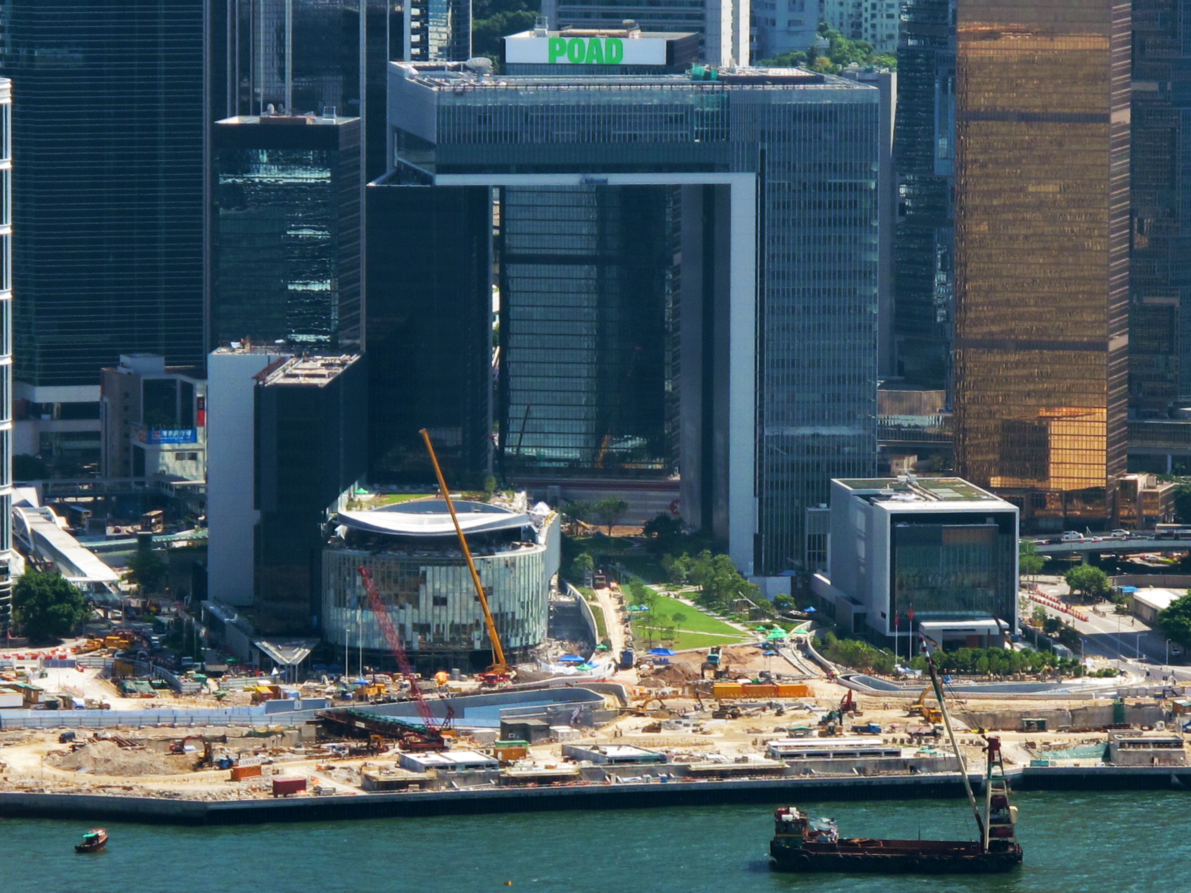 Central Government Offices 中區政府合署 (添馬艦)